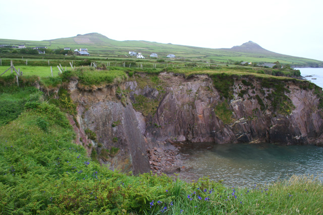 Cliffs near Dun an Oir A small cove lies immediately north of Dun an Oir (foreground). The patchwork of flat pasture fields forming the interior of the Smerwick (Ard na Caithne) headland lies behind, with the easterly two of The Three Sisters (An Triur Deirfear) in the distance: An Bhinn Mheanach (left) and Binn Diarmada (right)